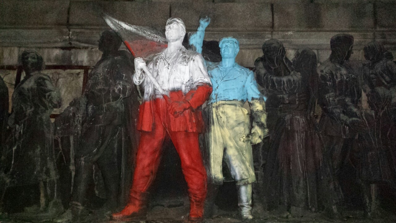 Sofia Monument to Soviet Army 2014-04-12